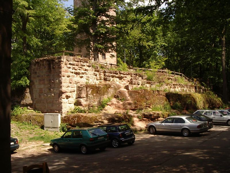 Alte Veste from south-west